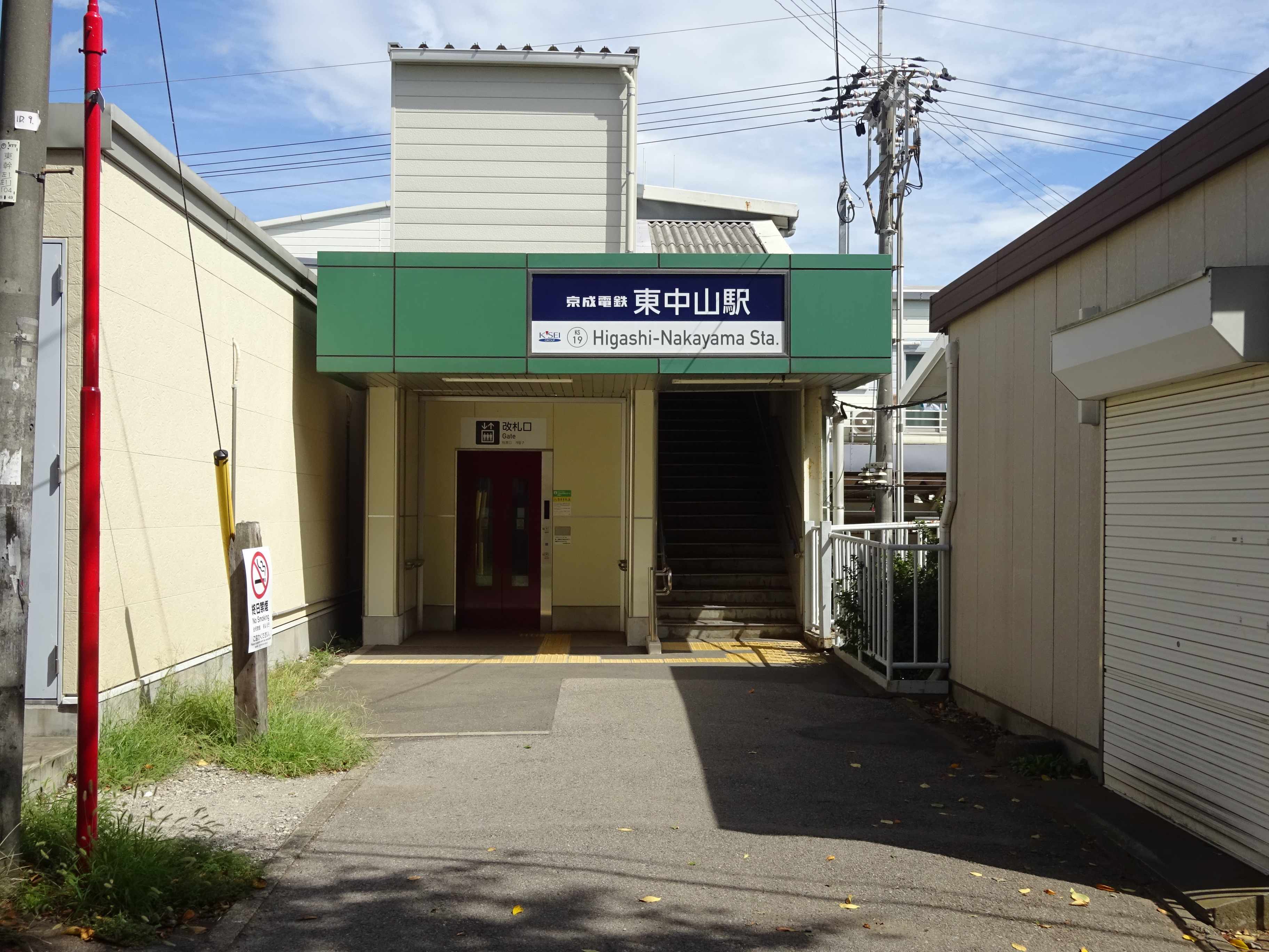 South entrance to Higashi-Nakayama Station